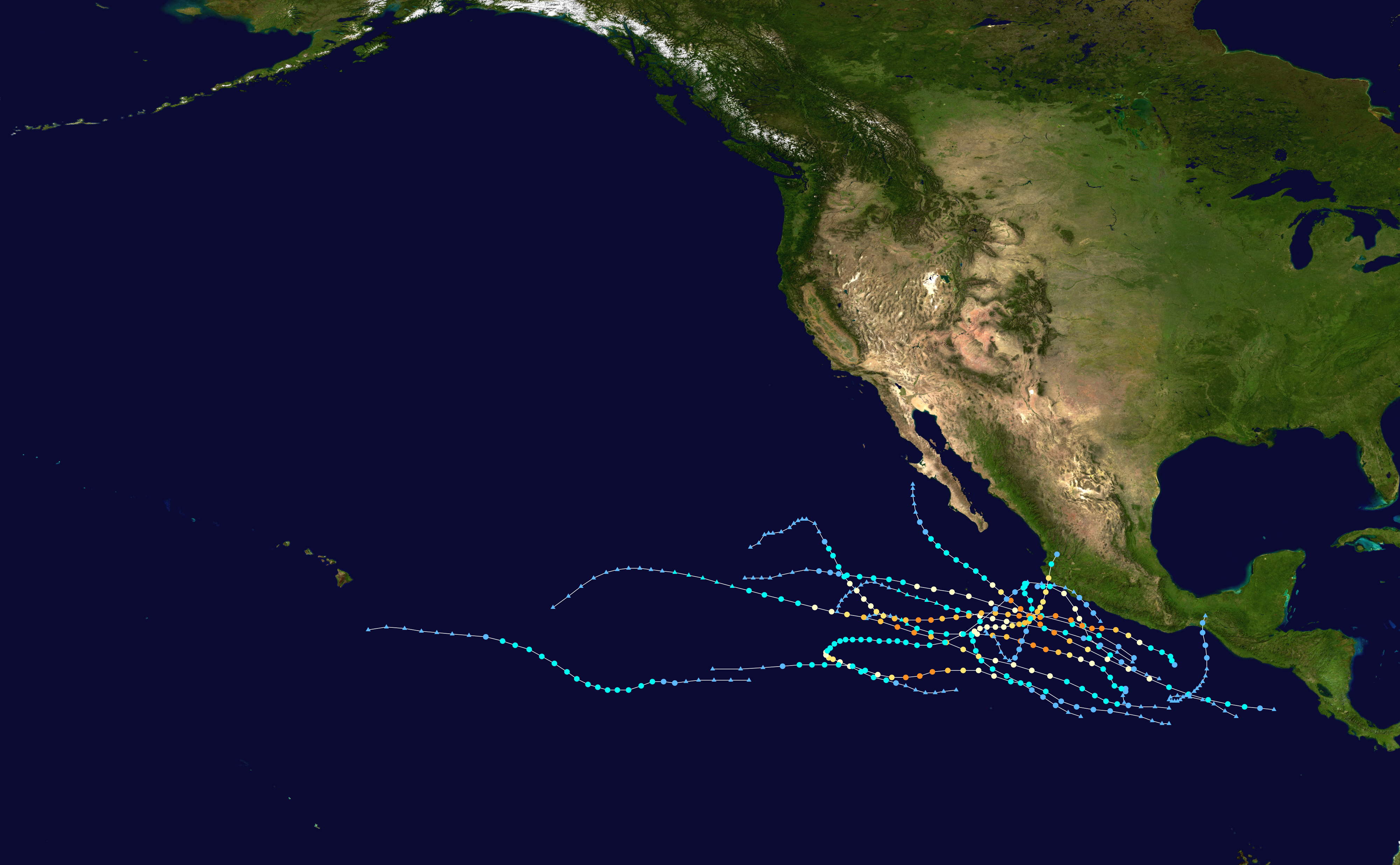 This map shows the tracks of all tropical cyclones in the 2011 Pacific hurricane season. The points show the location of each storm at 6-hour intervals. The colour represents the storm's maximum sustained wind speeds as classified in the Saffir-Simpson Hurricane Scale (see below), and the shape of the data points represent the type of the storm. Saffir–Simpson scale Tropical depression≤38 mph≤62 km/h Category 3111–129 mph178–208 km/h Tropical storm39–73 mph63–118 km/h Category 4130–156 mph209–251 km/h Category 174–95 mph119–153 km/h Category 5≥157 mph≥252 km/h Category 296–110 mph154–177 km/h Unknown Storm type Tropical cyclone Subtropical cyclone Extratropical cyclone / Remnant low / Tropical disturbance / Monsoon depression